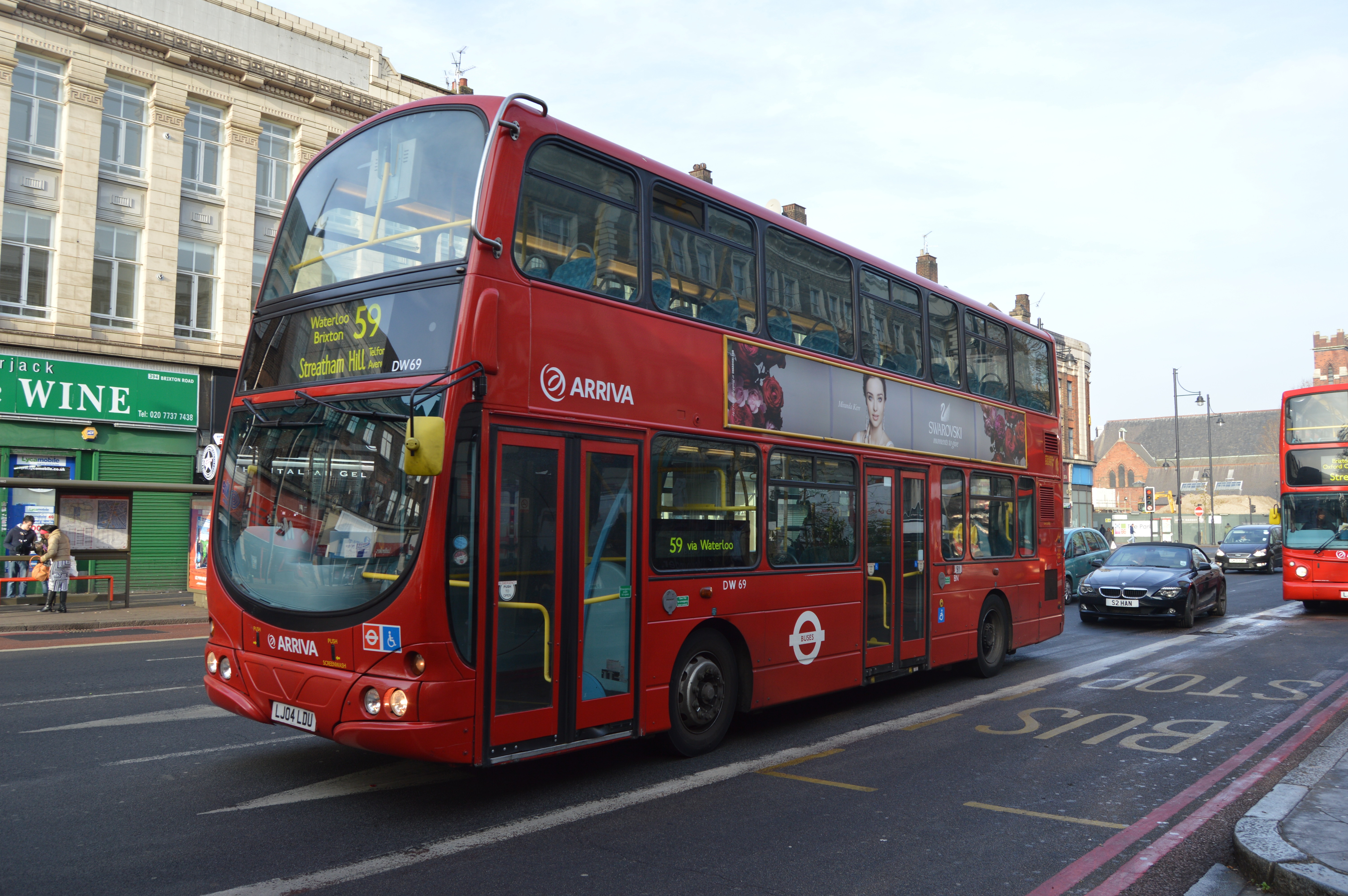 VDL DB300/Wright Pulsar Gemini seen in Brixton.